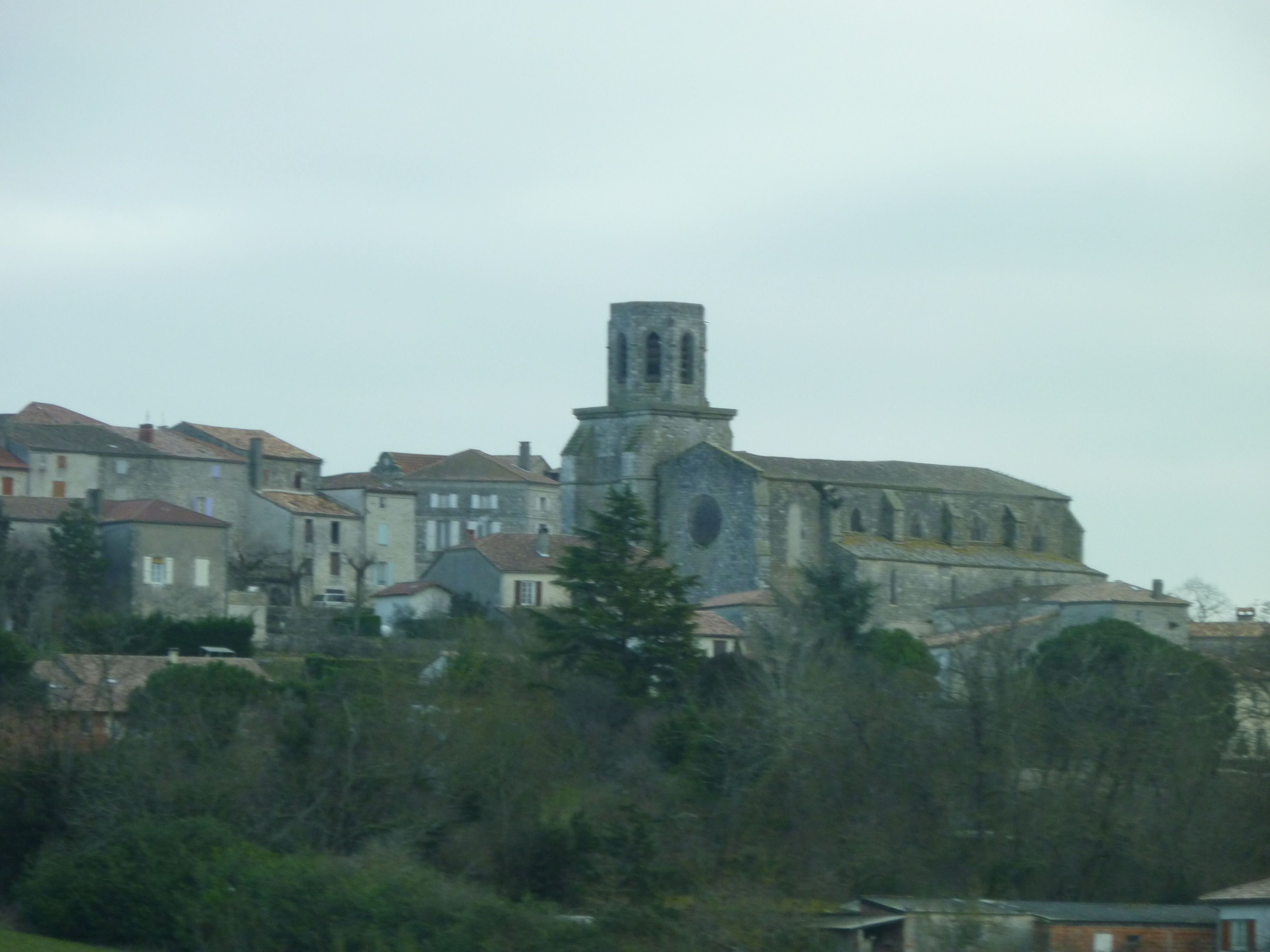 City of Laplume (Lot-et-Garonne, France)